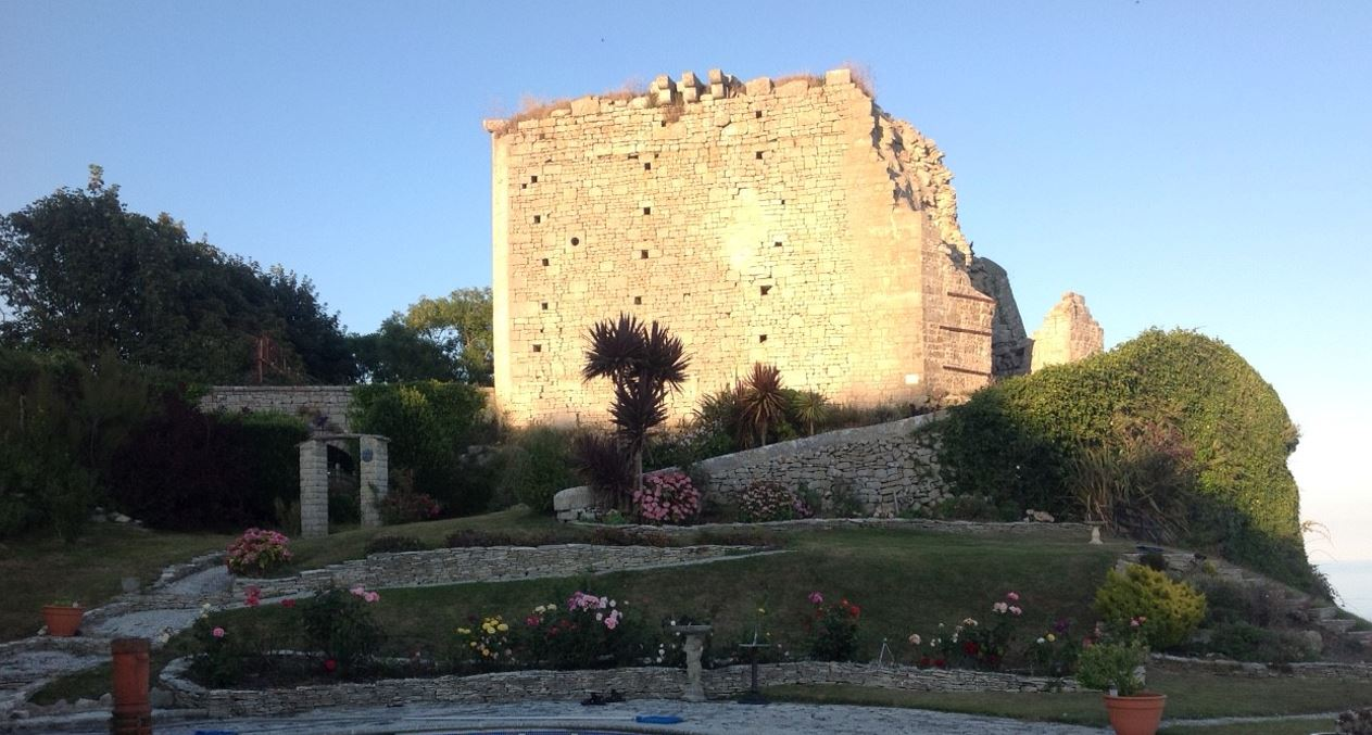 View of Rufus Castle from the West. (The castle lies in private grounds).